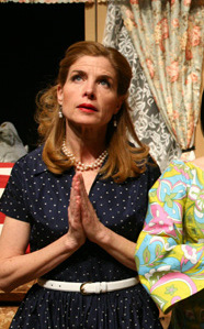 Performance of a 2007 Alchemy Theatre Company performance of Christopher Durang's The Vietnamization of New Jersey in New York City, directed by Robert Saxner. From left, Blanche Baker as Ozzie Ann, Susan Gross as Liat, Nick Westrate as Et, Frank Deal as Larry and Corey Sullivan as David. Photograph by Trevor Oswalt.